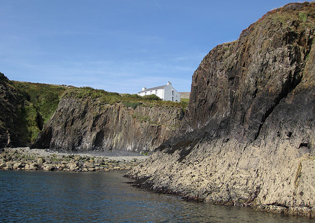 Former farmhouse, Ramsey Island Now RSPB property. There are Atlantic grey seals around with several white-coated pups on the pebble beach.